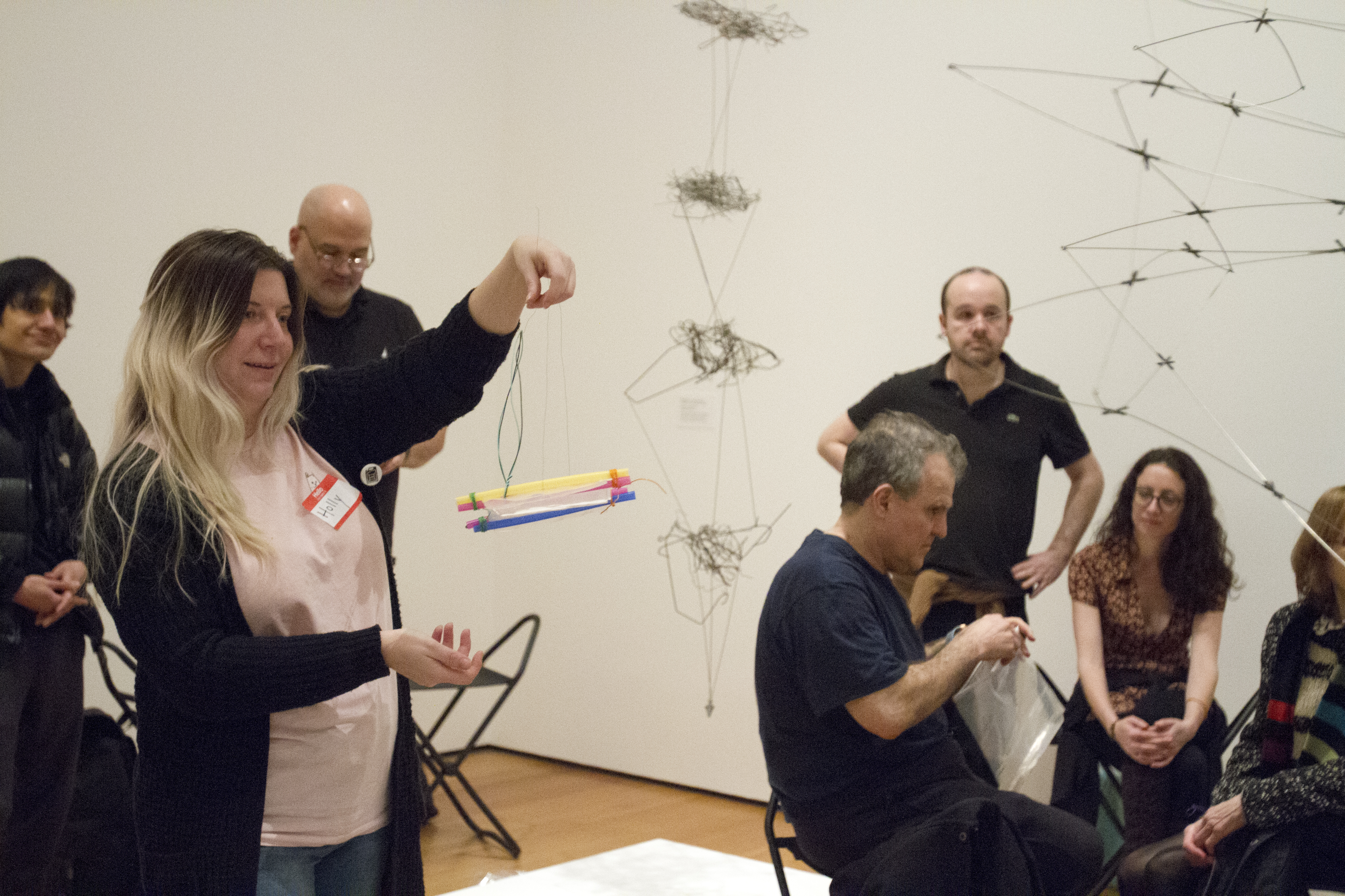 Art+Feminism at The Museum of Modern Art, New York City. March 3rd, 2018.